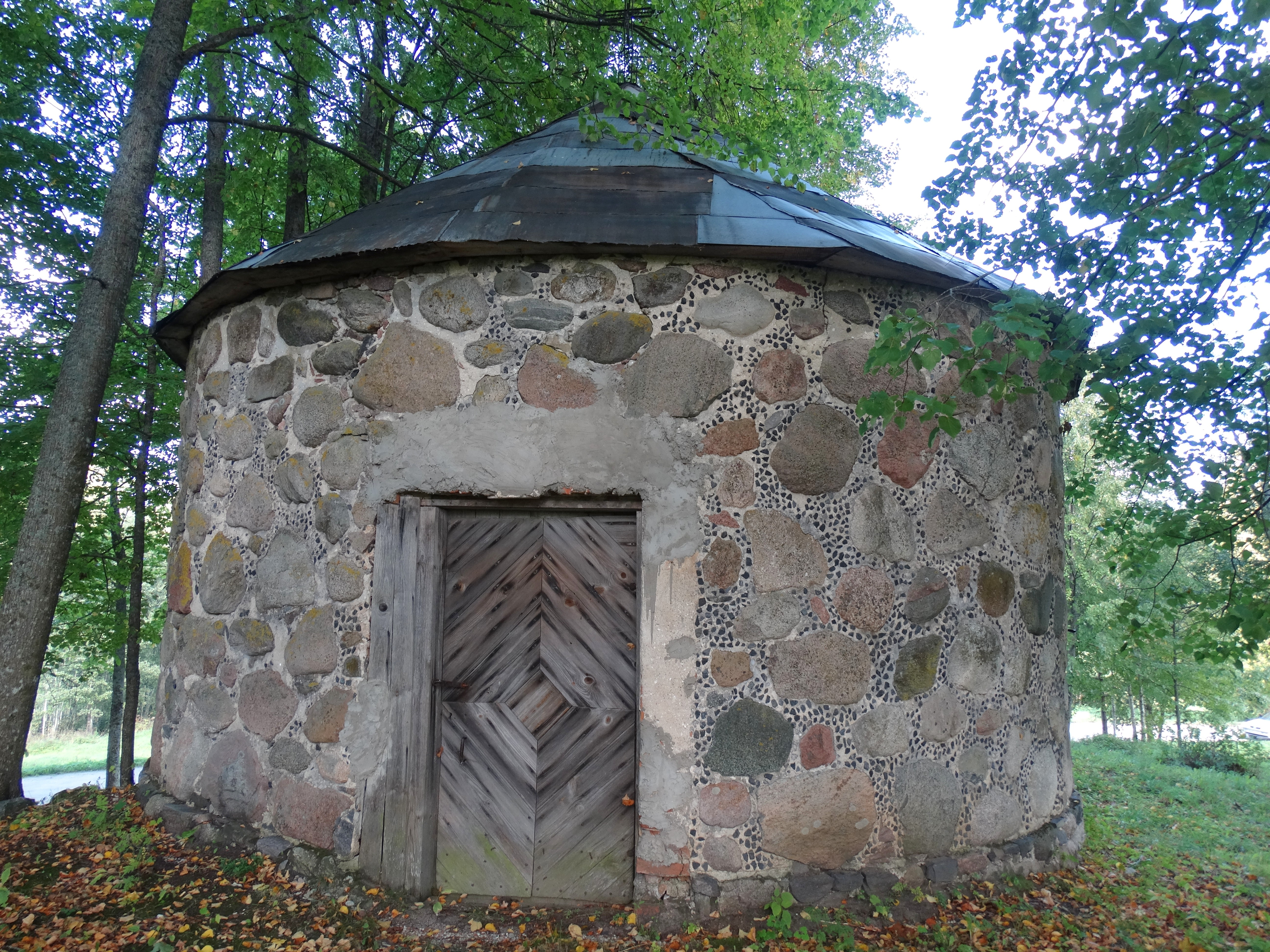 Chapel in Nariūnai, Zarasai District, Lithuania